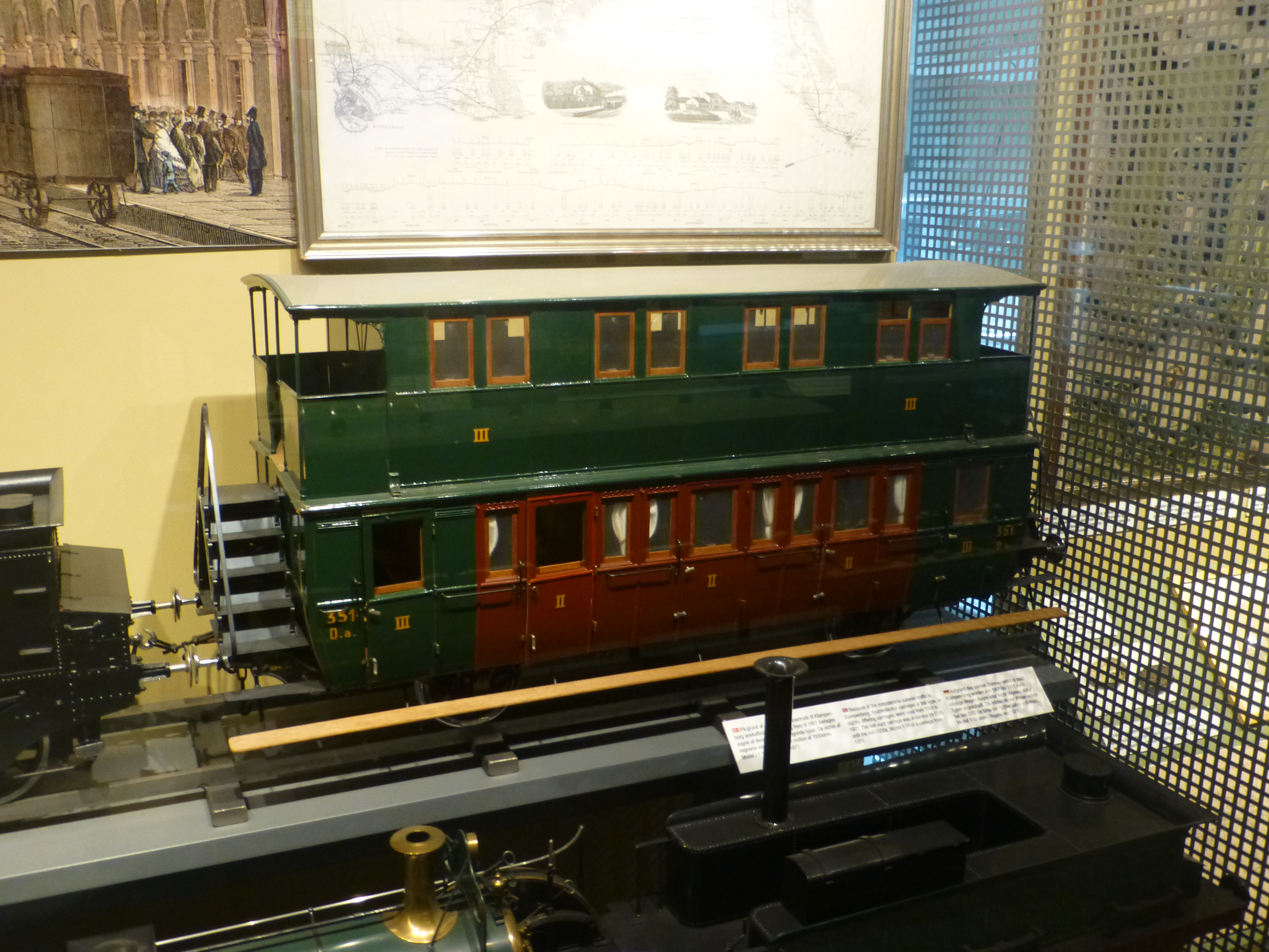 Model of the double-decker coach SJS Da 371 from 1870 in Danmarks Jernbanemuseum.